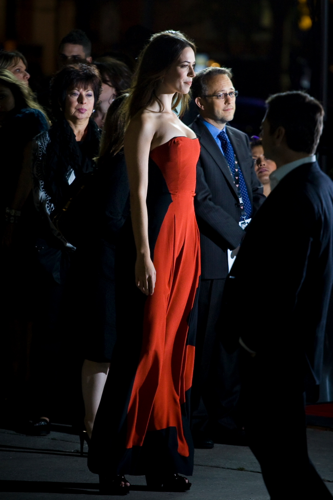 At the premiere of "The Town", directed by Ben Affleck, during the Toronto International Film Festival, 2010.